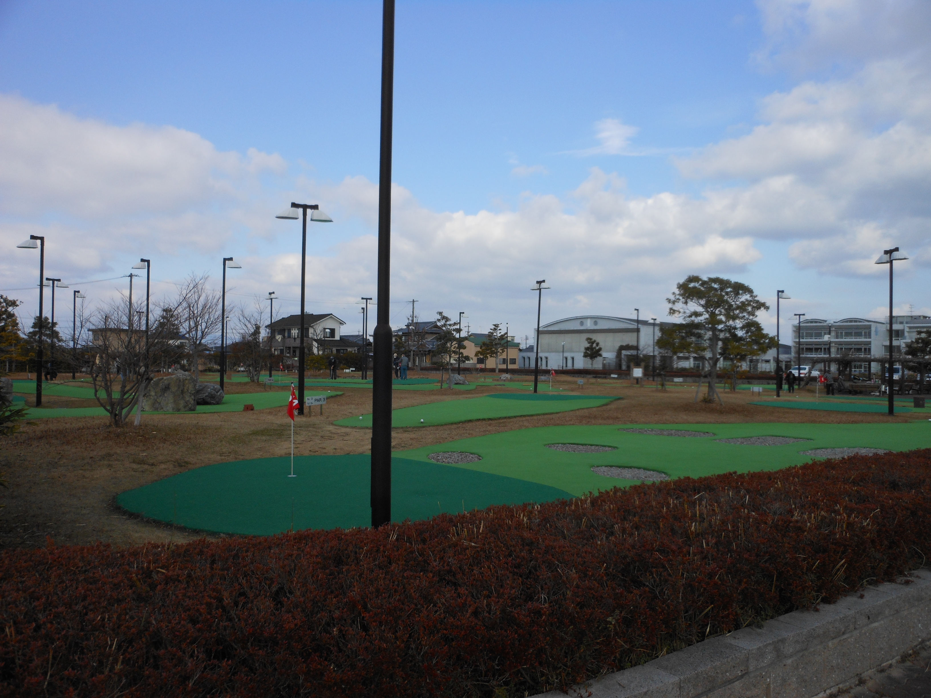 This is the Miniature Golf Course of Tsu City Sun Delta Karasu in Tsu, Mie, Japan.